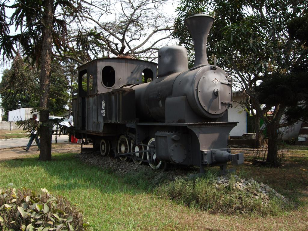 Historic steam locomotive on display in Pointe Noire (city) — the Republic of the Congo.